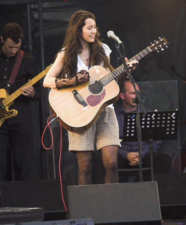 Nerina Natasha Georgina Pallot (1975) is a BRIT Award nominated British Singer Songwriter.